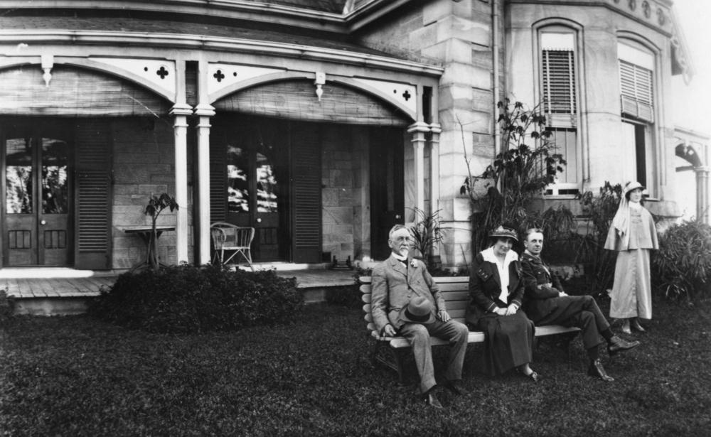 Brisbane mansion, Eldernell in the suburb of Hamilton Eldernell was built in 1869 and Brisbane architect James Cowlishaw was chosen to design the house. It was home to the Brisbane Anglican archbishop Philip Aspinall. It was later known as Farsley and Bishopsbourne. This photograph shows a family group and one of the men in uniform.